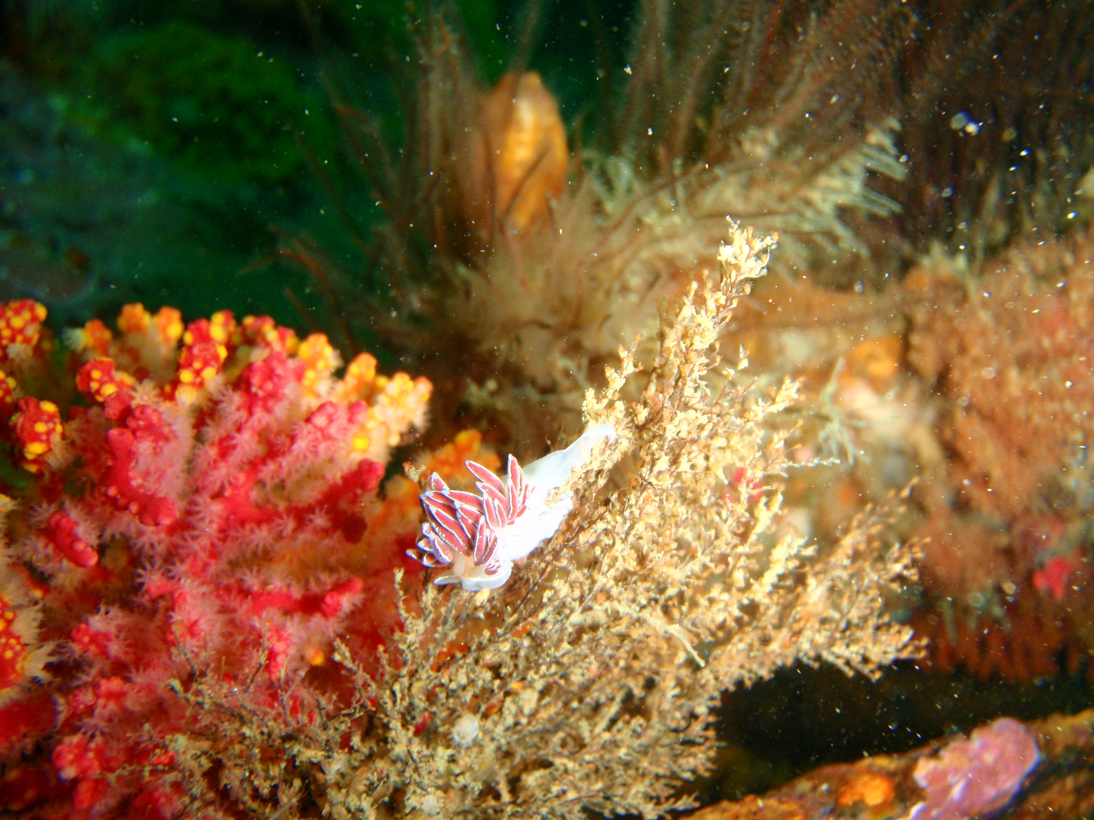 White edged nudibranch at the wreck of SAS Pietermaritzburg at Miller's Point on the Cape Peninsula